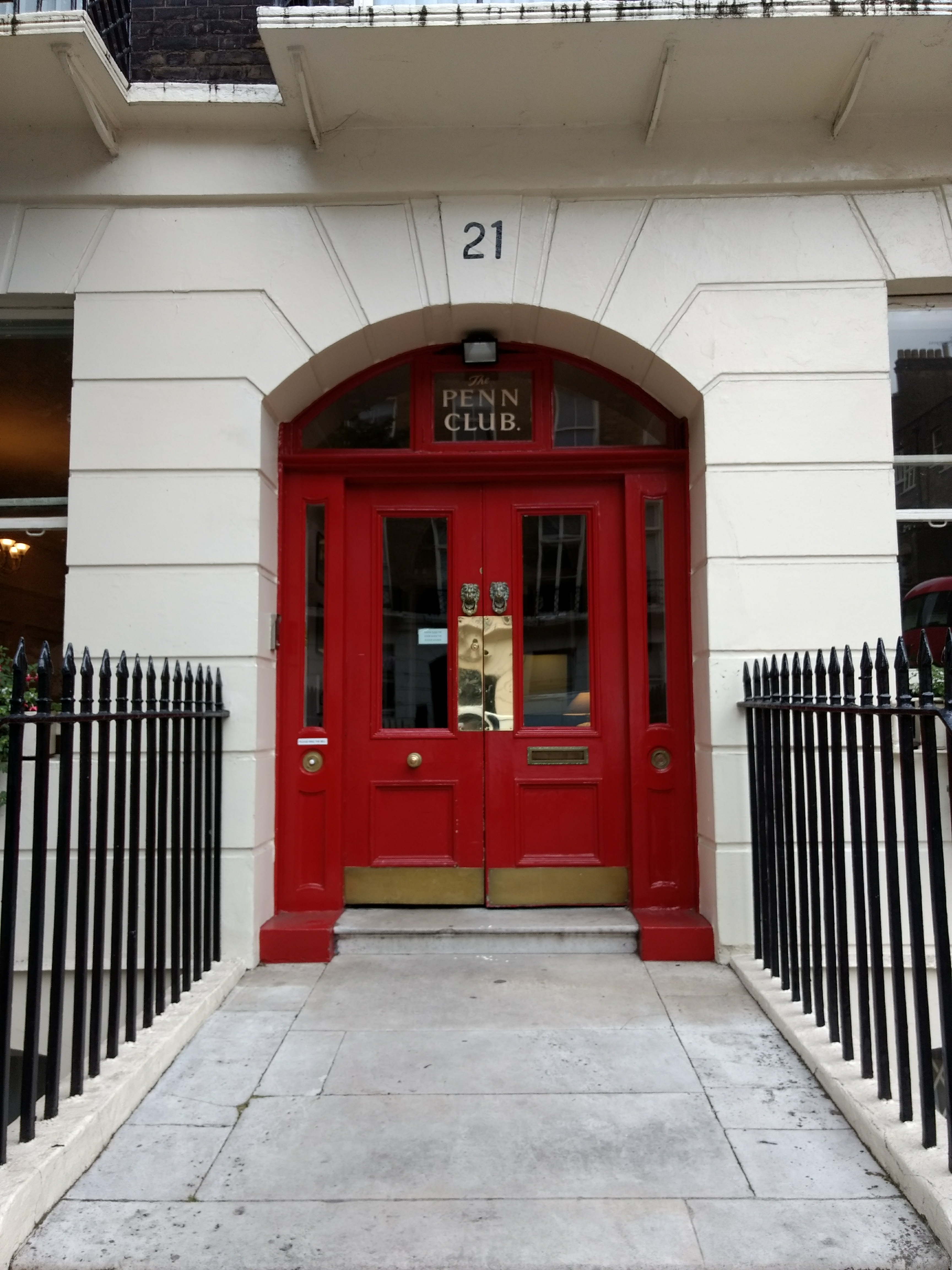 London